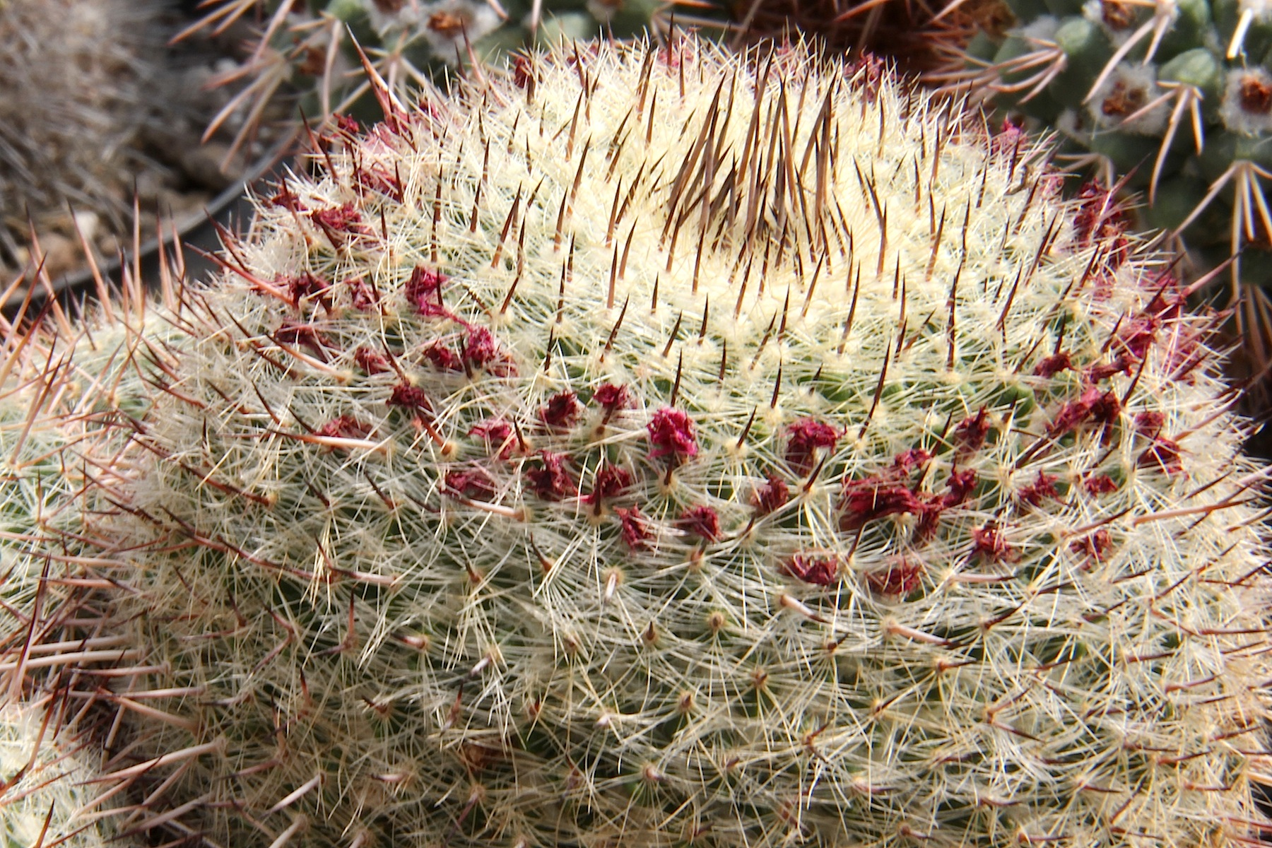 Mammillaria guerreronis